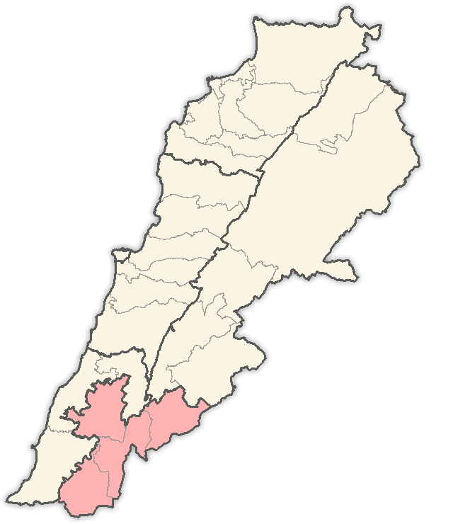 self-made